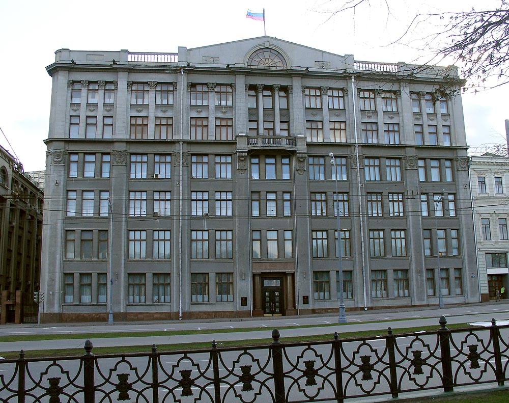 4 Staraya Square, Moscow by Vladimir Sherwood (Jr., 1867-1930). Built in 1912-1915 as Titov mixed-use buildings, Communist Party of the Soviet Union Central Committee headquarters in 1920s-1991, current Administration of the President of Russia. The building on the left (No. 6, former Armand offices) was also designed by Sherwood. These were his last two works.